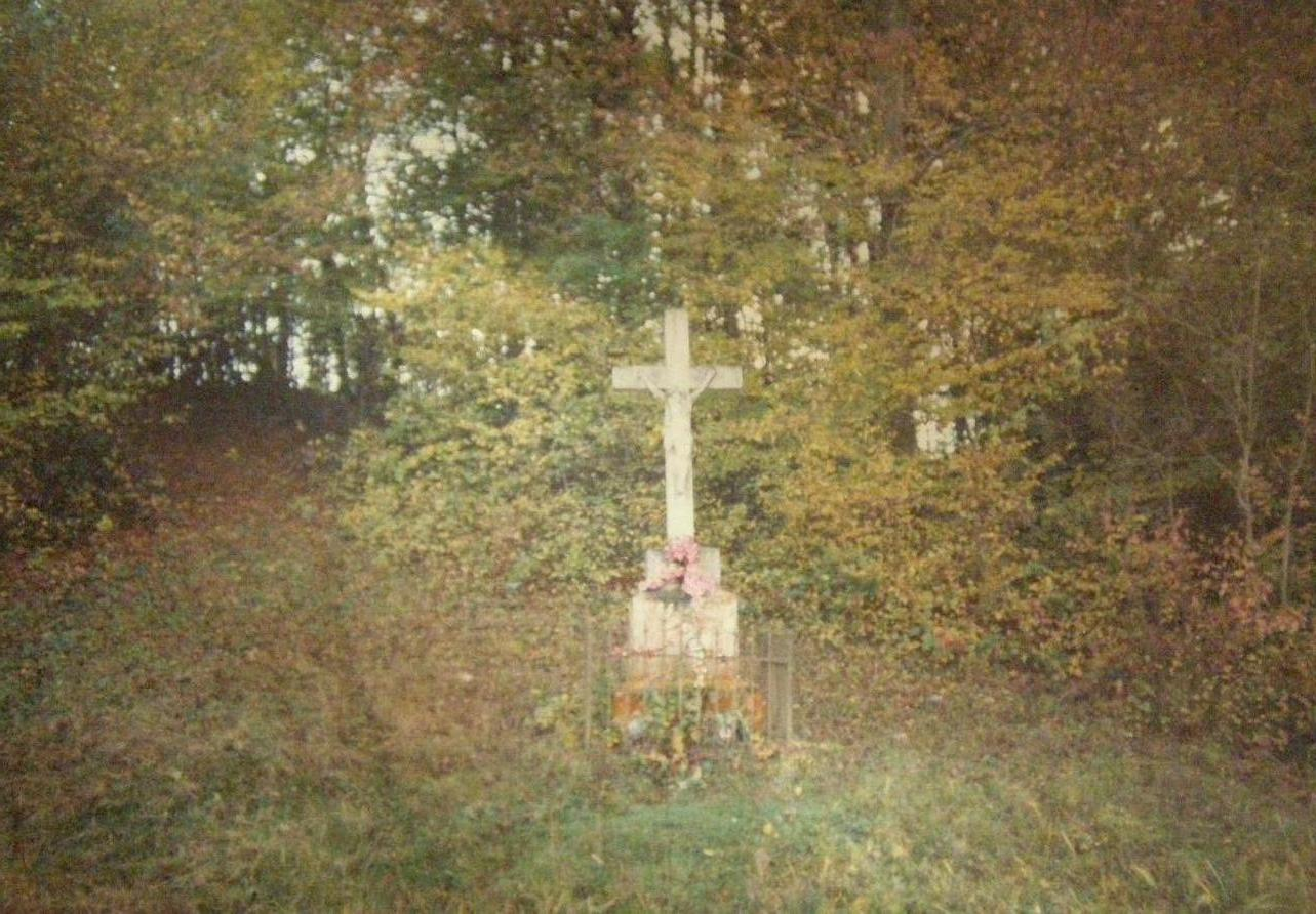 The cross of Miklós Rüsics, Ritkaháza (Kétvölgy). Stand in 1892